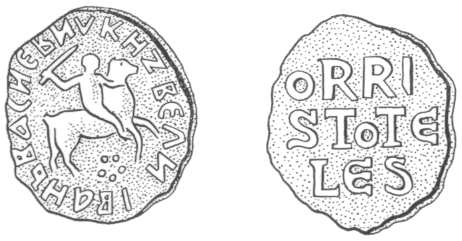 Silver piece from the reign of Ivan III of Muscovy, possibly minted by Aristotele Fioravanti. Five petals under the horse's hooves are thought to be an allusion to the architect's name (Fioravanti meaning "flowers to the wind" in Italian). The word "Orristoteles" is an another possible allusion (however, the erratic spelling gives way to other interpretations).